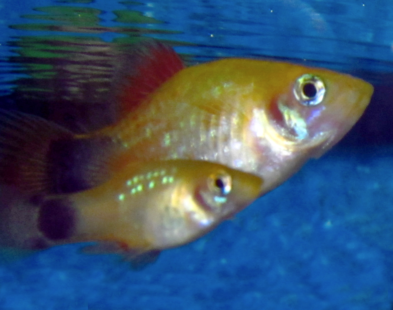 A juvenile male platy (Xiphphorus maculatus) with his mother behind him. Platys have no parental bonds, and when their young a small enough, they are at risk of being eaten by the parents.